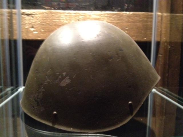 Side view if the Greek M1934 steel helmet.